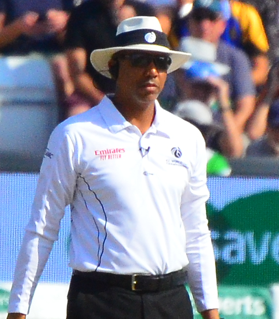 Poised for the start of Day 4 of the 3rd Test of the 2019 Ashes: umpire Joel Wilson